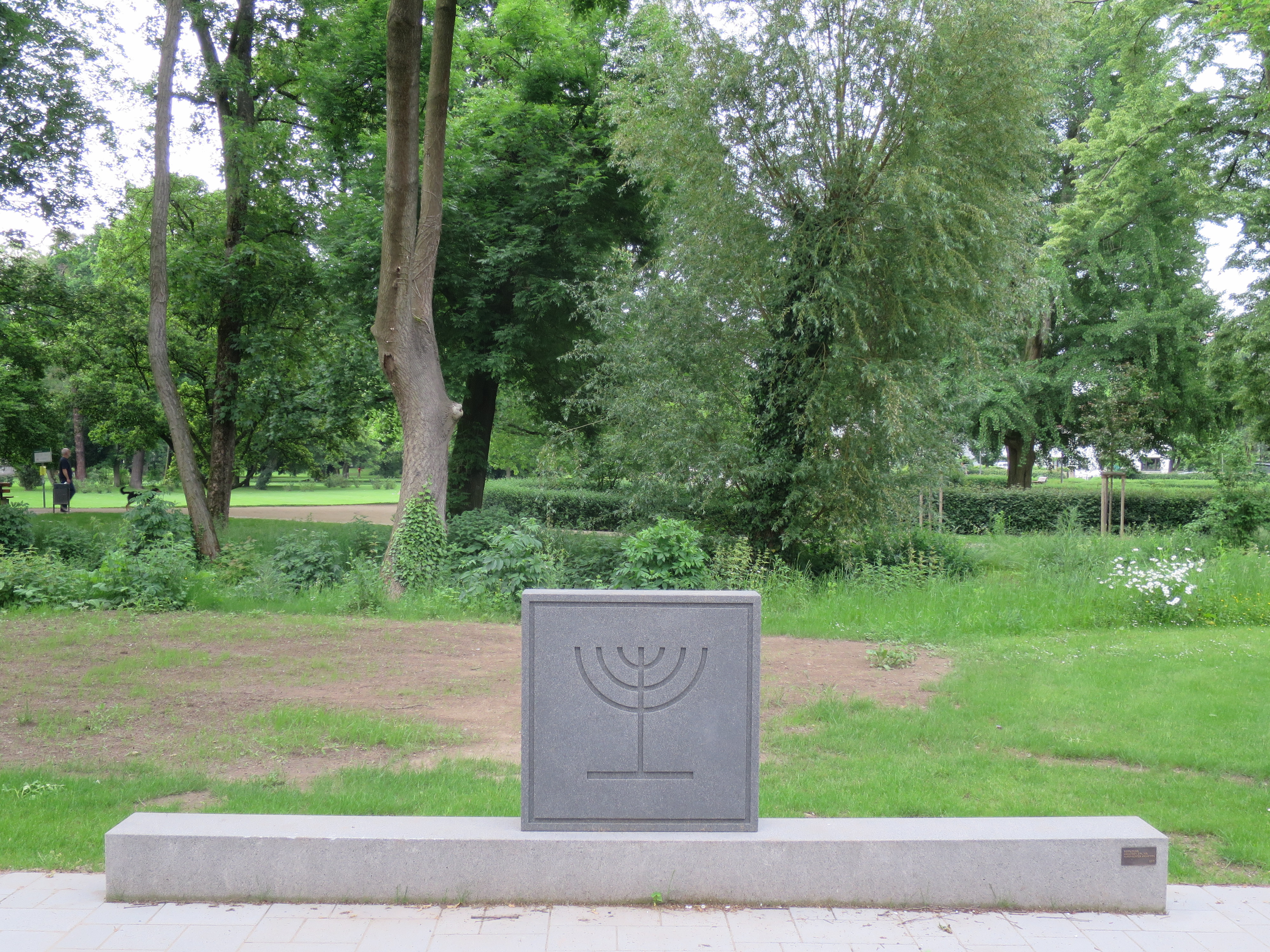 Memorial for the former synagogue at Frankfurt-Rödelheim (detail)